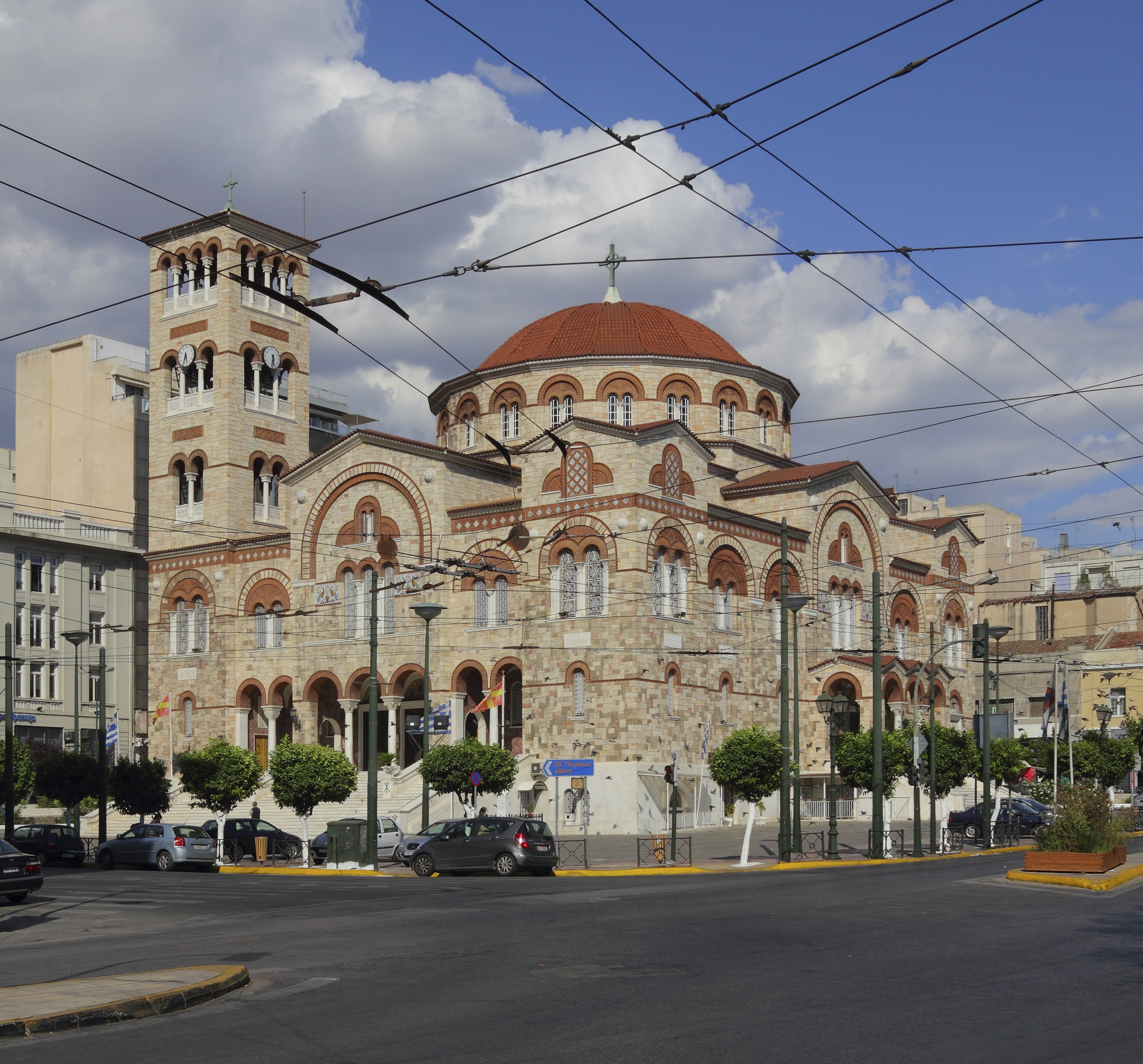 Church of Holy Trinity in Piraeus (Attica, Greece)